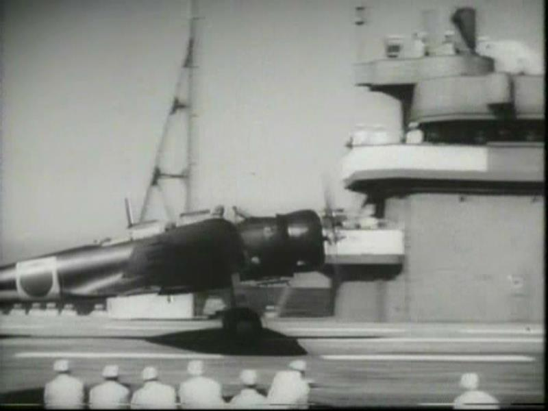 Nakajima B5N1 "Kate" from the film "Hawai Mare oki kaisen (The War at Sea from Hawaii to Malay)" (1942).